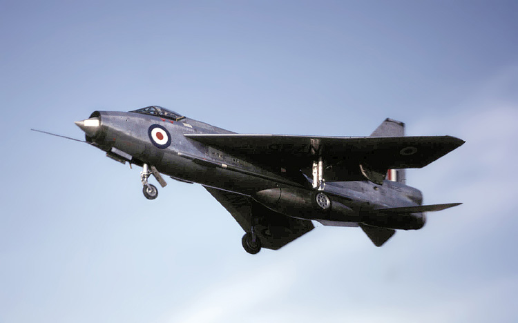 English Electric Lightning (probably F.3) landing at Filton, Bristol, England. Photographed by Adrian Pingstone in 1964, prepared for Wikipedia in January 2004, and released to the public domain.